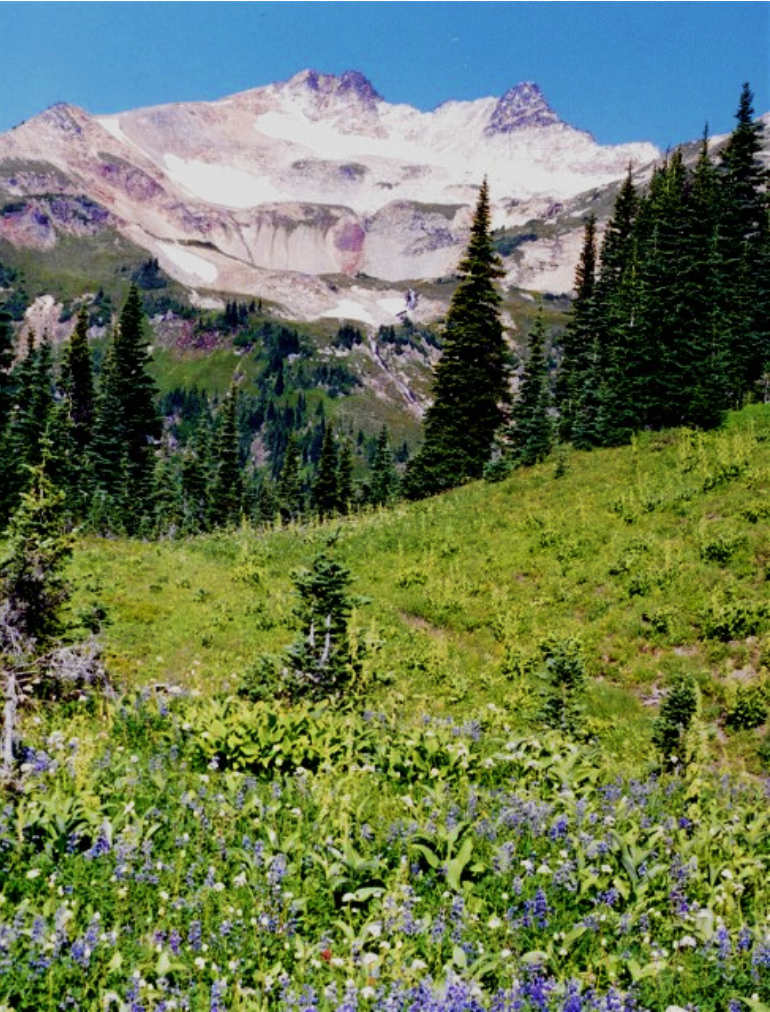 Plummer Mountain 7870' seen from Suiattle Pass. North Cascades of Washington state.